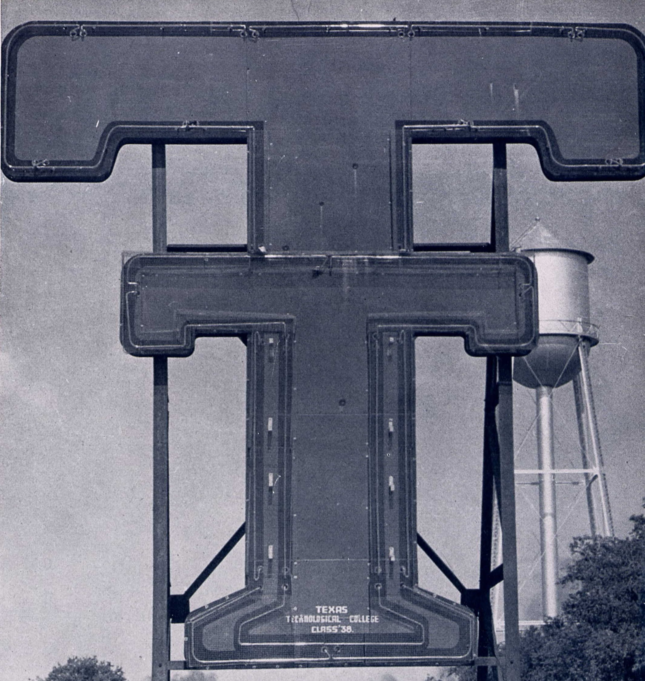 Double T neon sign donated to Texas Technological College